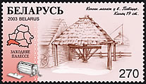 Horse riding in the village Povit'e. End 19.